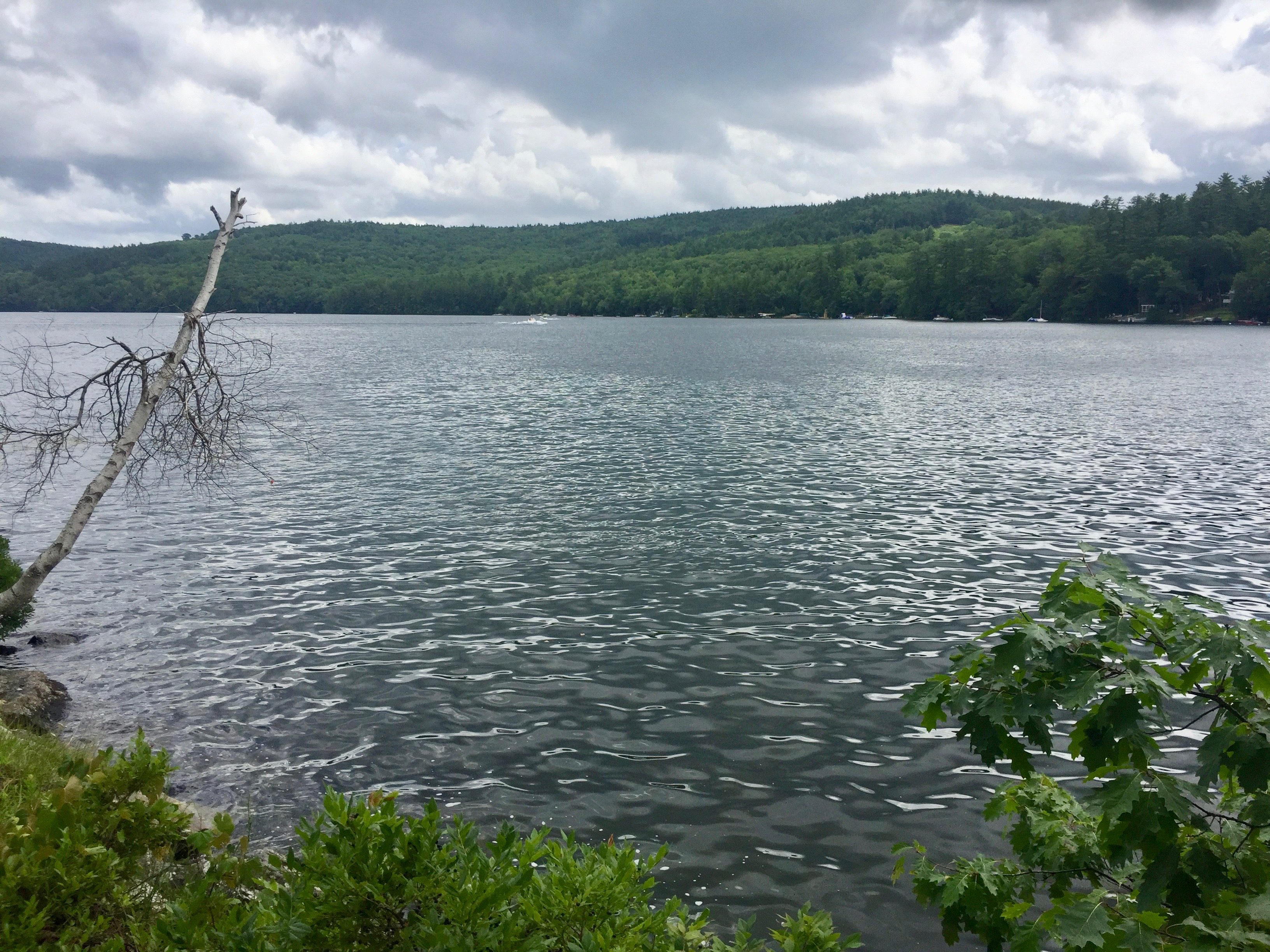 View of Little Squam Lake in Ashland, New Hampshire